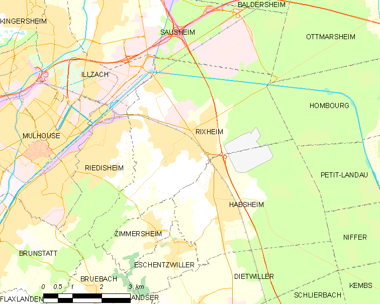 Map of French municipality